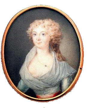 Magdalena Charlotta Rudenschöld Swedish revolutionary -1766